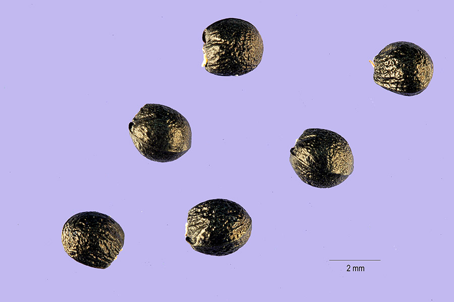 Allium victorialis L. - victory onion